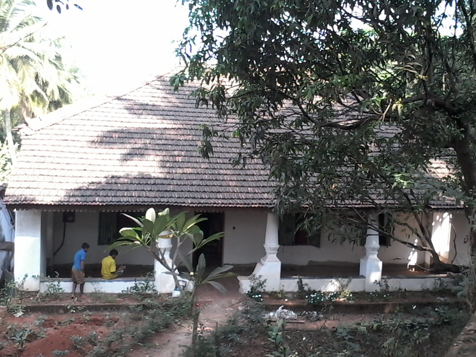 An old Portuguese style palatial house, Aldona, Goa, India